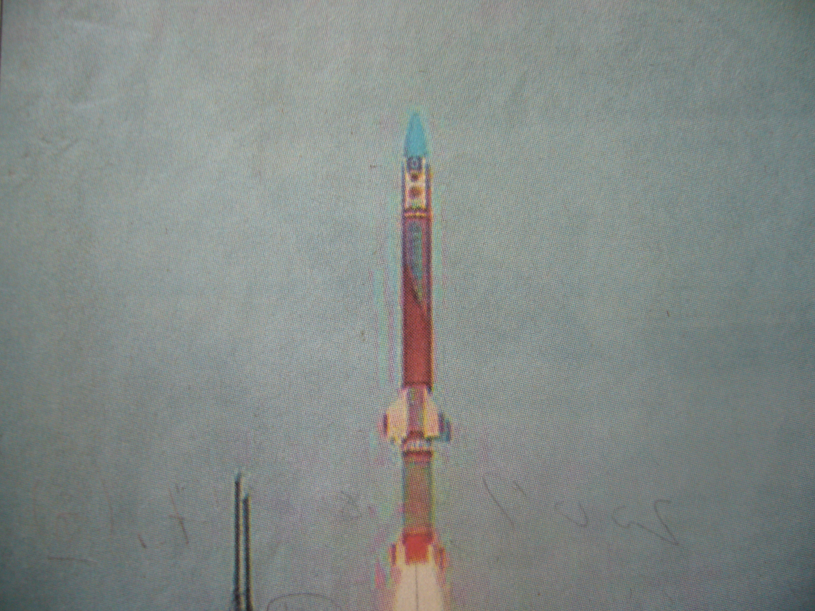 a Taiwan Sounding Rocket.